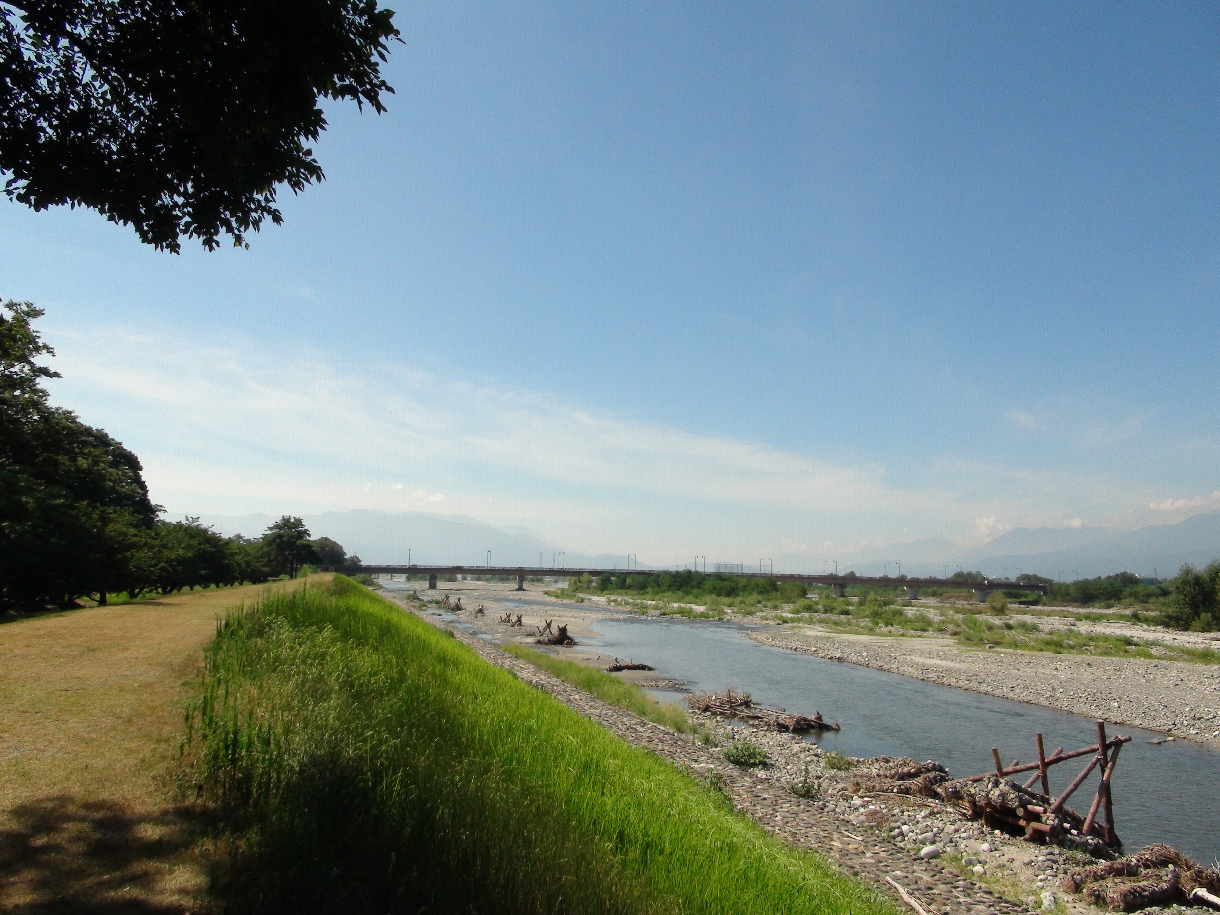 Outside of Shingen embankment